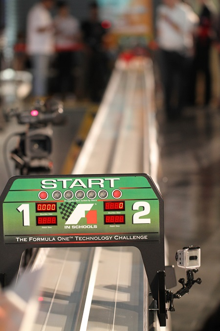 F1 in Schools Competition Track